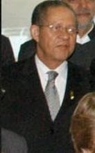 Bruce Golding